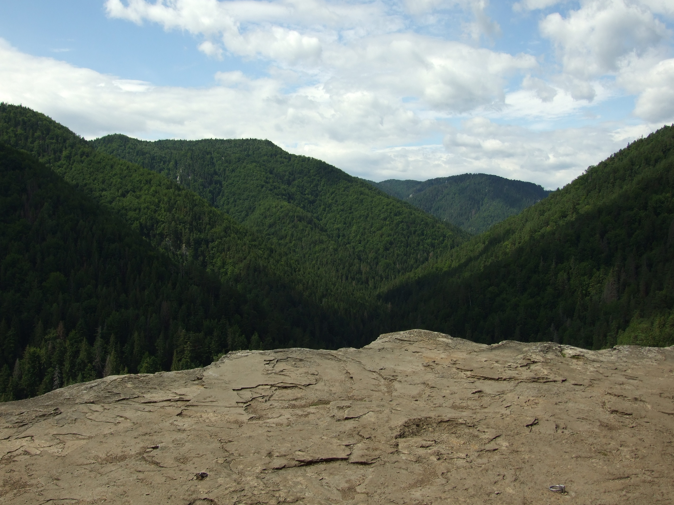 Tomašovský výhľad overlook place in Slovenský raj national park, Košice Region, SKhelp